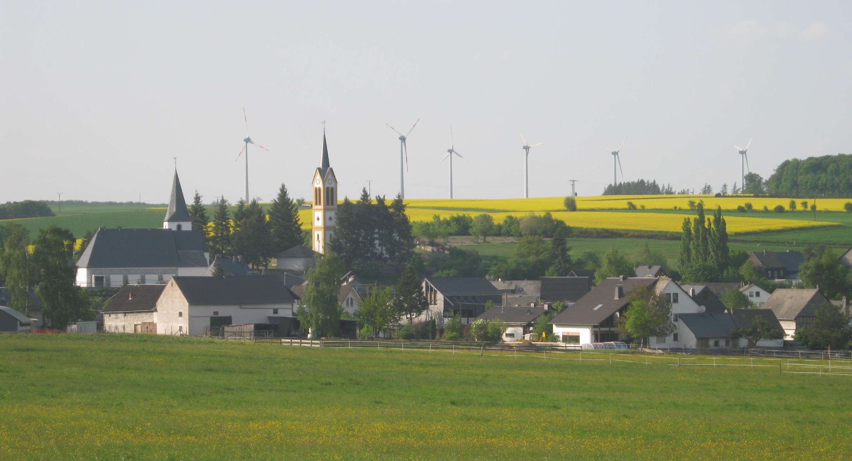 Biebern, Hunsrück landscape, Germany